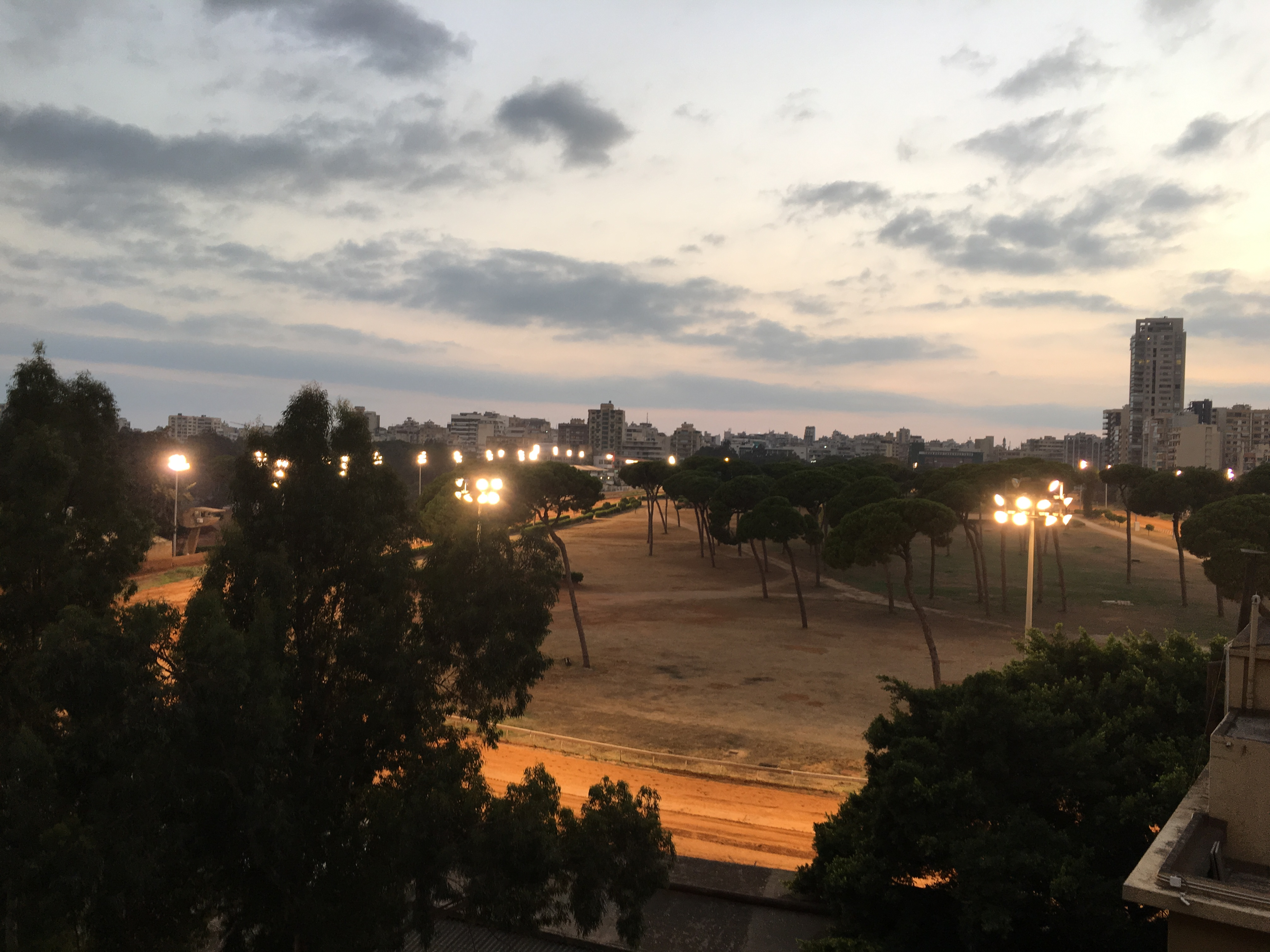 Horses are also trained very early morning, using the same lighting system.